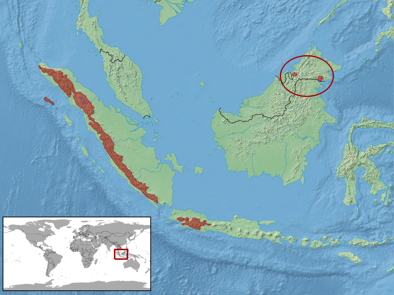 geographic distribution of Calamaria modesta (Native: Indonesia (Jawa, Sumatera); Malaysia (Sabah))